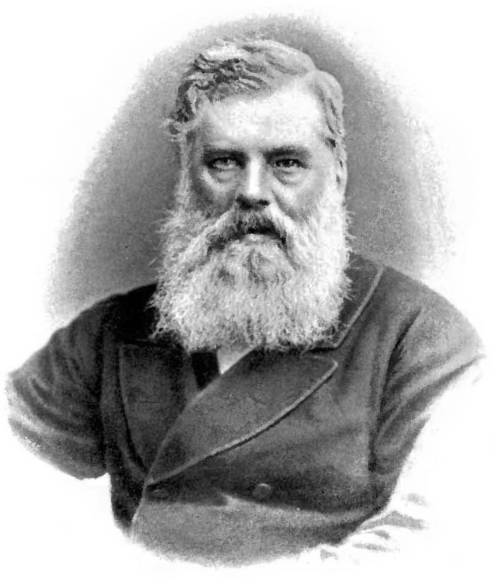 Thomas Oldham (1816-1878)